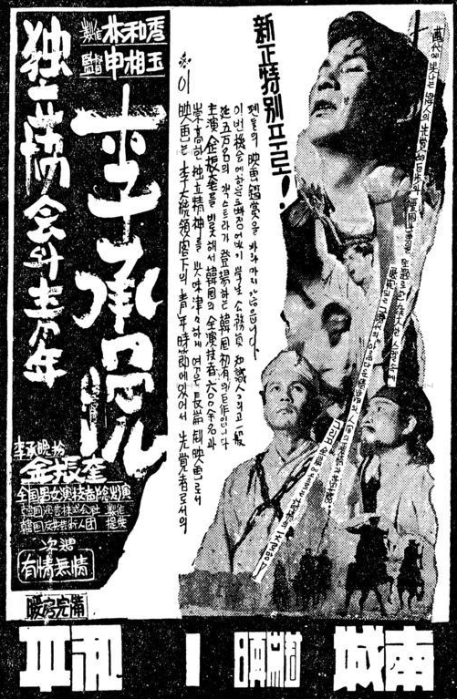 Seongnam Theatre & Pyeonghwa Theatre, advertisement, 1959